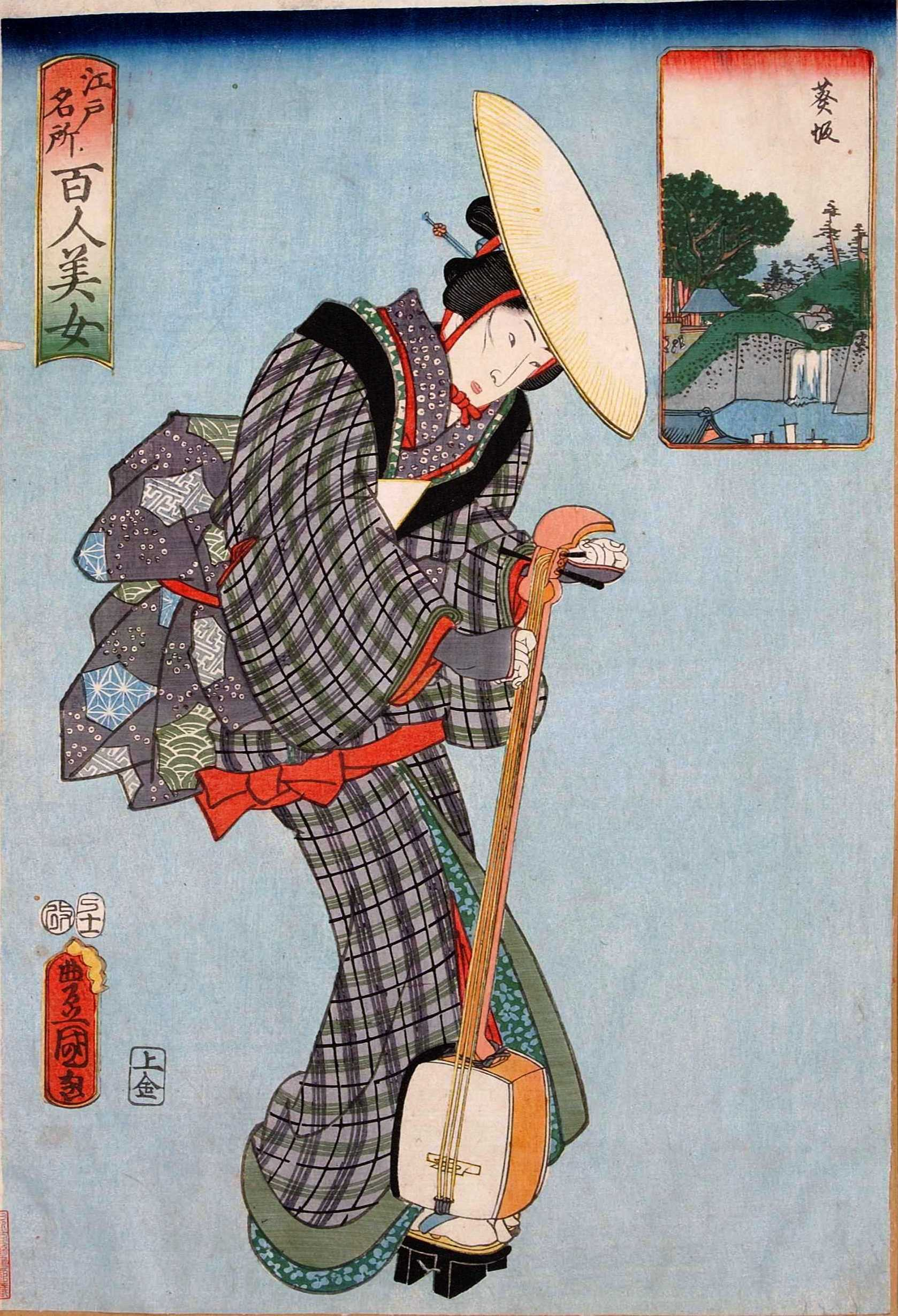 Utagawa Kunisada (ToyokuniIII), Aoisaka, from the series One Hundred Beautiful Women at Famous Places in Edo (Edo meisho hyakunin bijo), 1857